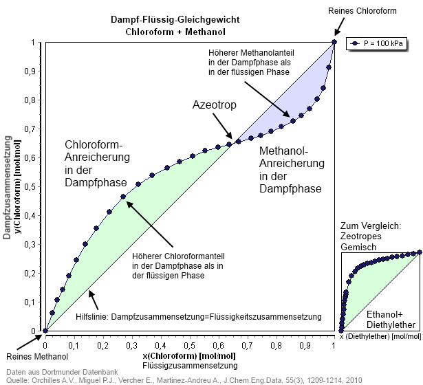 Vapour-liquid equilibrium of the mixture of Chloroform and Methanol with azeotropic point